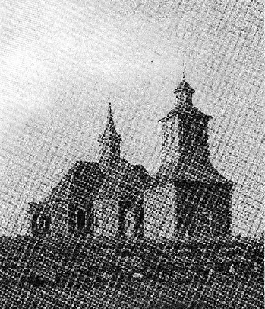 The church of Oulainen. It was built 1753 by Matti Honka and renewed 1882 by F. W. Lüchou.